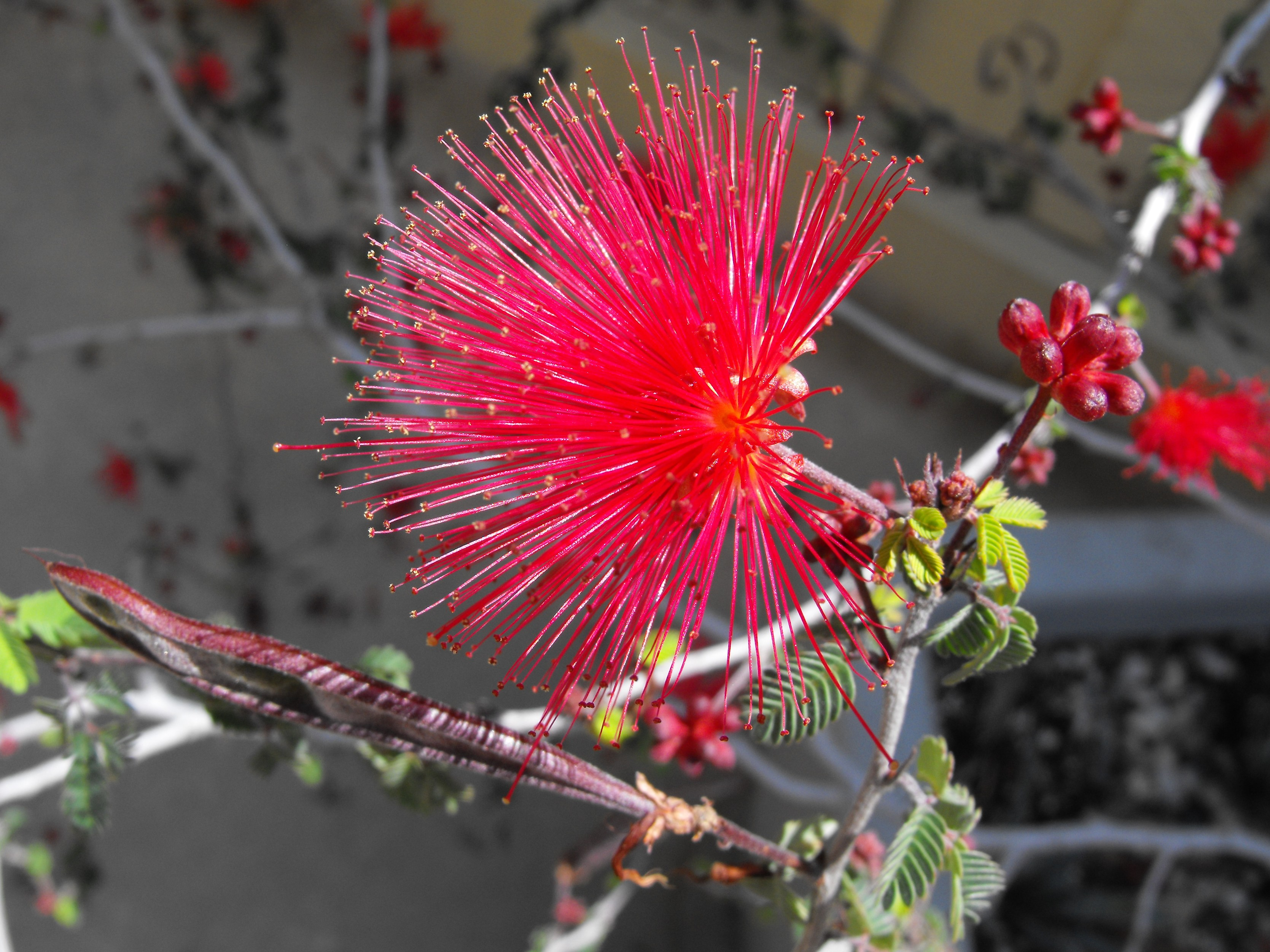 Calliandra 'Sierra Starr' - at the Rancho Santa Ana Botanic Garden in Claremont, Southern California, U.S. Identified by garden i.d. sign.